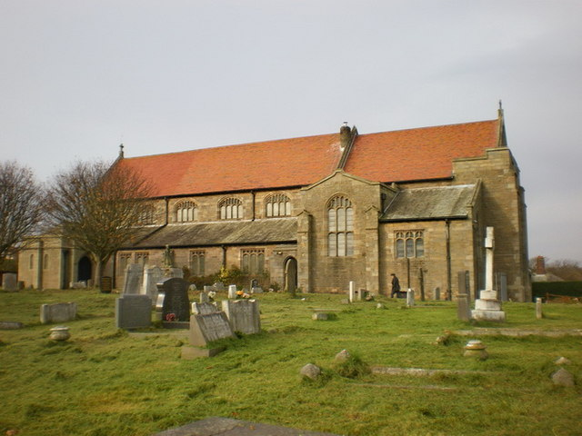 Parish church of St Mary the Virgin, Vickerstown, Barrow-in-Furness, Cumbria